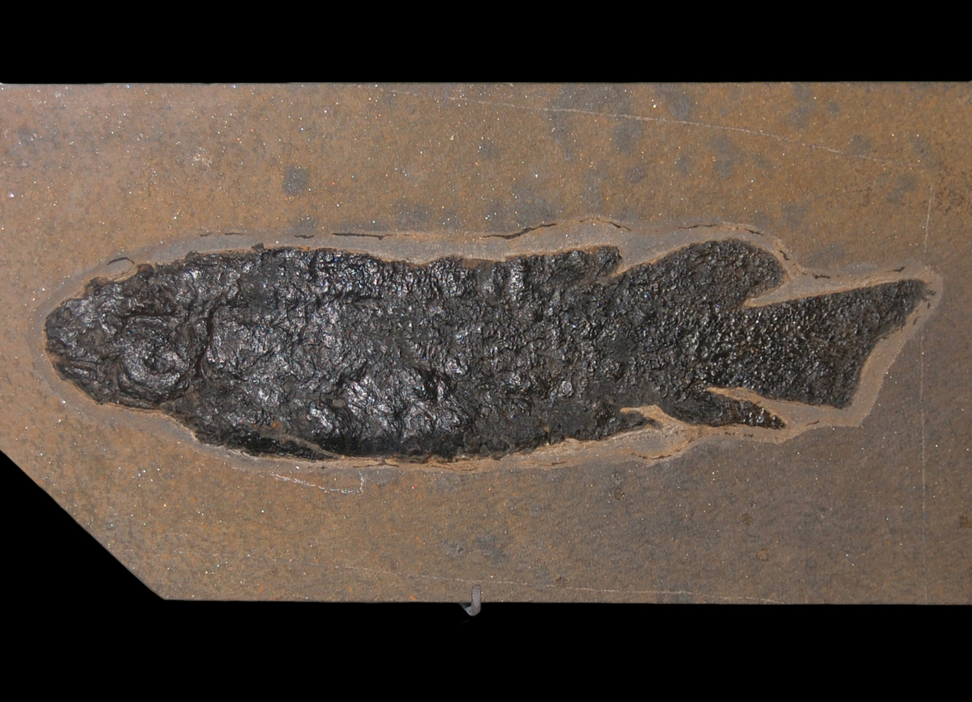 Fossil in the Oxford University natural history museum